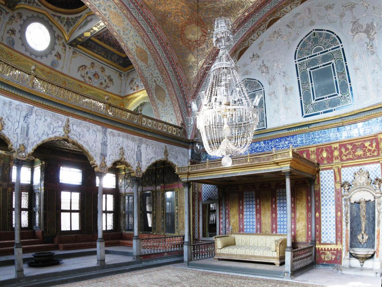 Interior of the Imperial Hall (Hünkar Sofası) at Topkapi Palace in Istanbul. The upper gallery was reserved for the ladies and the Queen Mother while the Sultan himself sat on the throne.